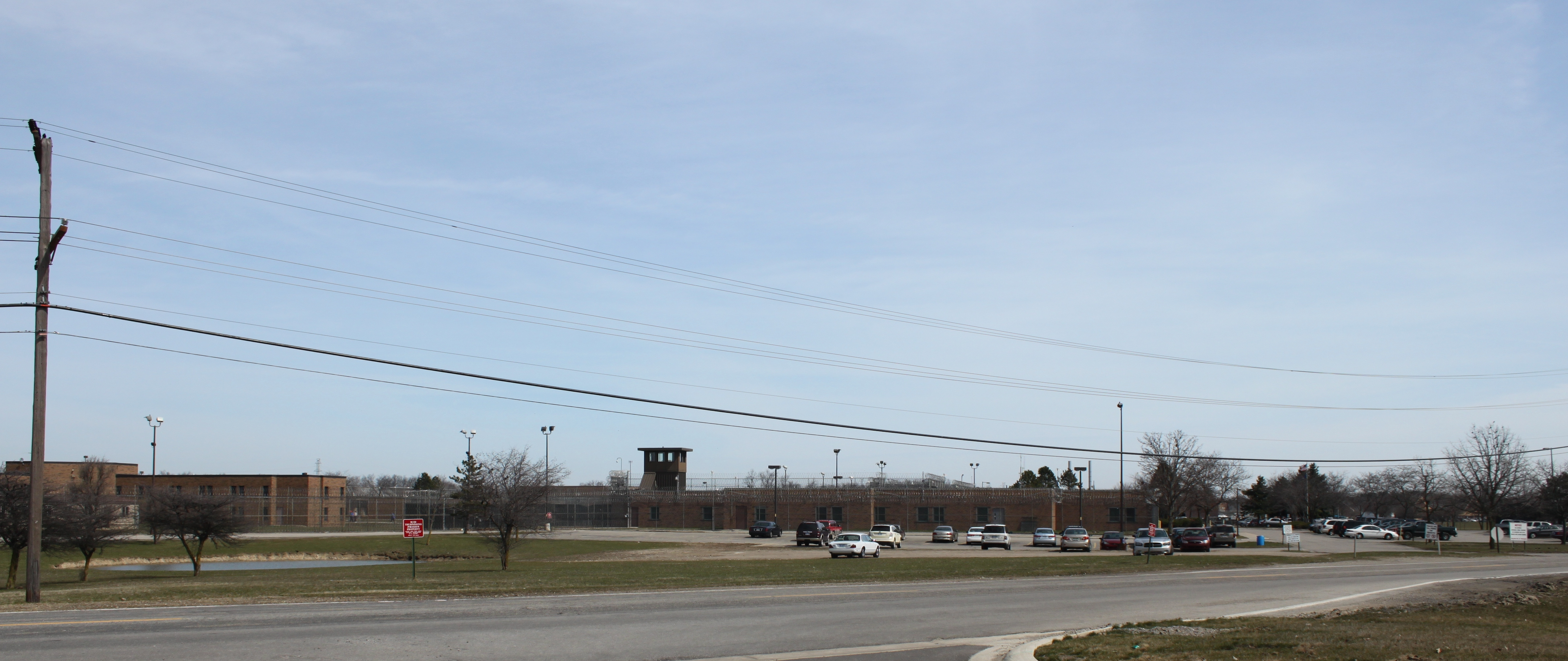 Women's Huron Valley Correctional Facility near Ypsilanti, Michigan